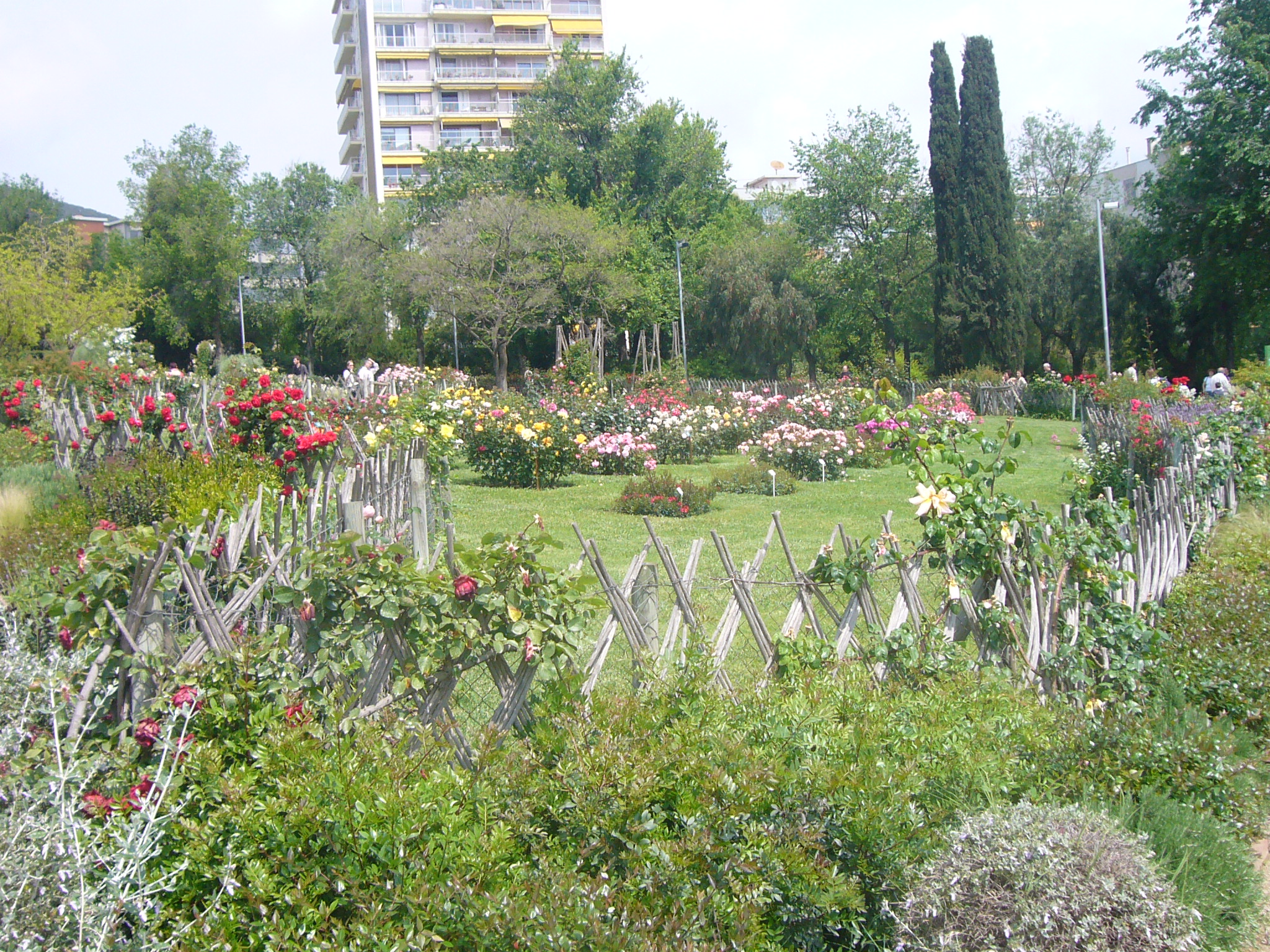 Roses at the Parc de Cervantes, in Barcelona